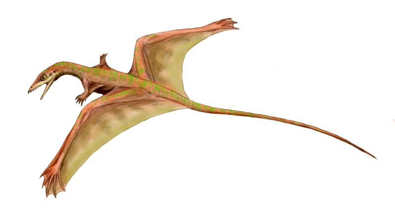 Sharovipteryx mirabilis, a prolacertiform from the Early Triassic of Kyrgyzstan, pencil drawing.